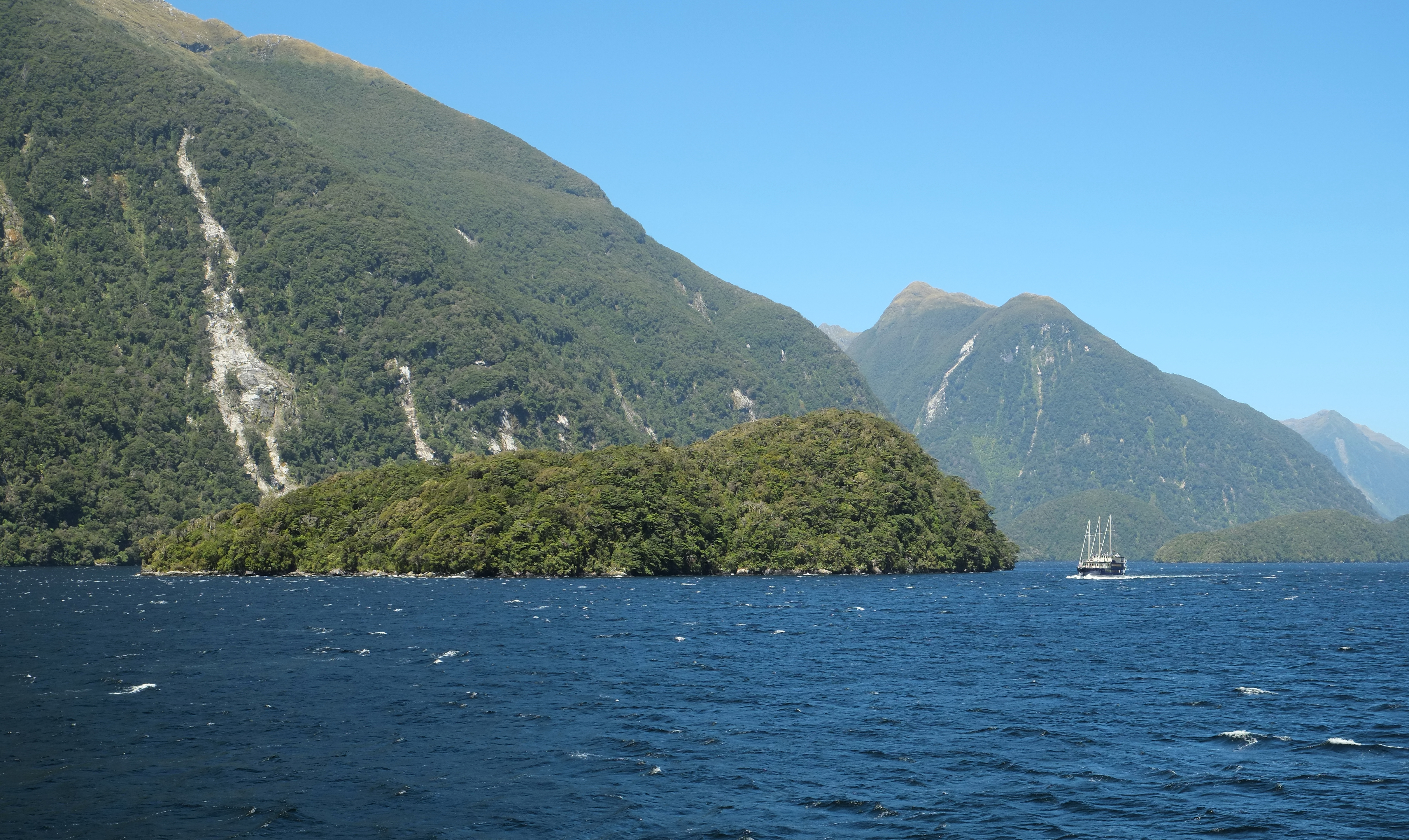 Fergusson Island in Doubtful Sound, with the Milford Mariner cruise boat next to it; Elizabeth Island in the distance on the right